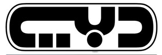 Logo Dubai TV (2013-Now)